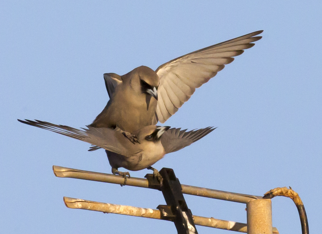 sequence of shots of love rituals of black faced woodswallows